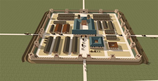 Computer reconstruction of a Roman castle